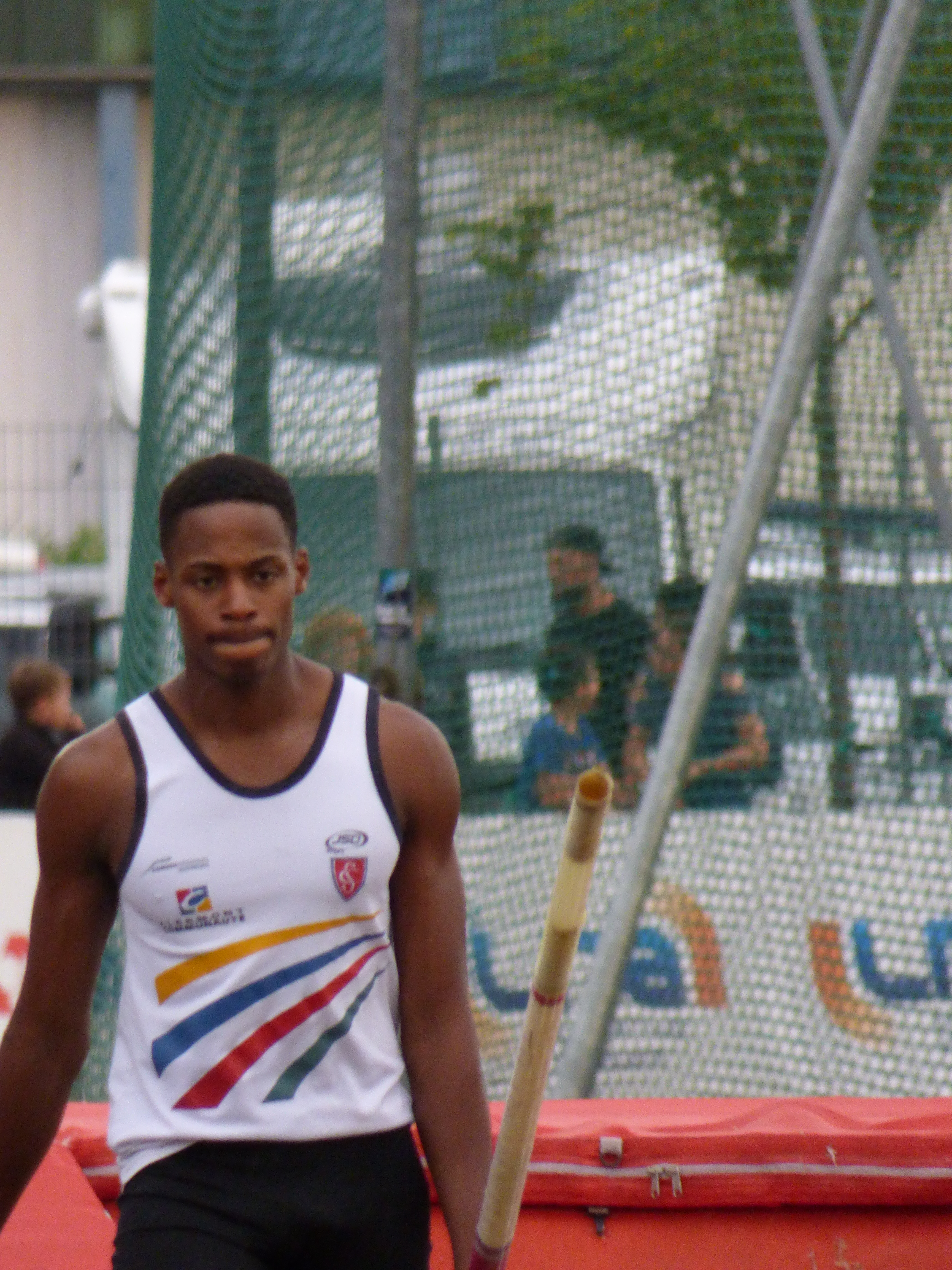 2017 Meeting Stanislas